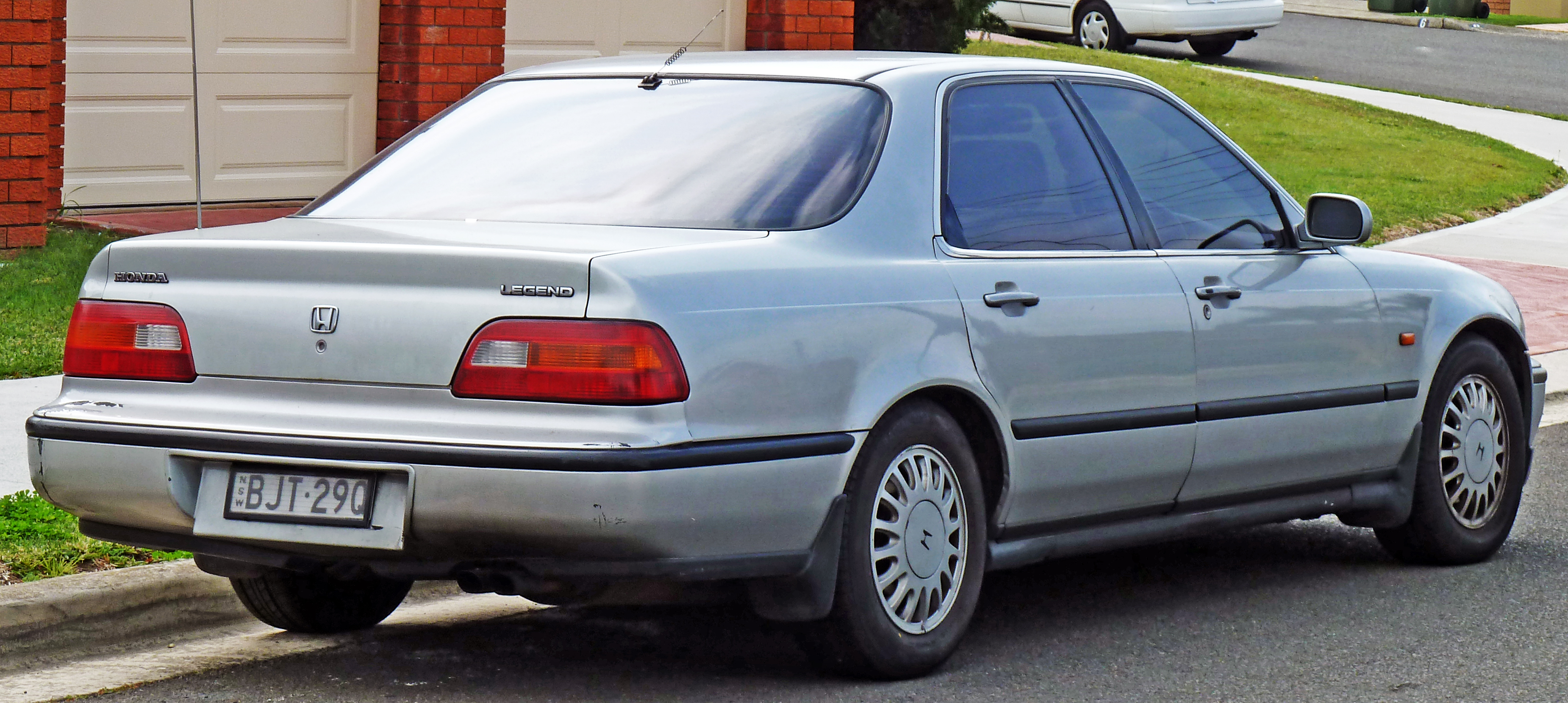 1994 Honda Legend (KA7) sedan. Photographed in Taren Point, New South Wales, Australia.